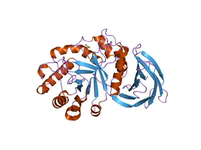 Cartoon representation of the molecular structure of protein registered with 1nof code.